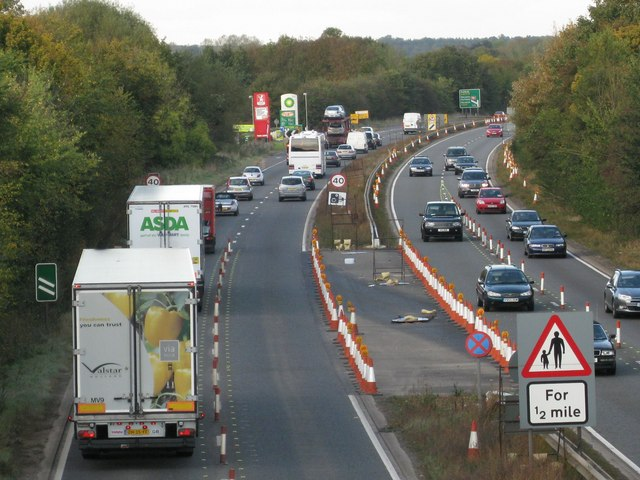 A46 Northbound from Hampton Road bridge near Warwick. Approaching the end of the works associated with the short A46 bypass around junction 15 of the M40 at Longbridge. Warwick services is in the distance. Compare Matthew Lee's 2008 image 723720. Impossible now: the bridge from which it was taken has been removed. The Hampton Road bridge appears in the distance. The warning sign, lower right, above, relates to the three public footpath crossings of the road 1517610; 1517789; and 1517862.